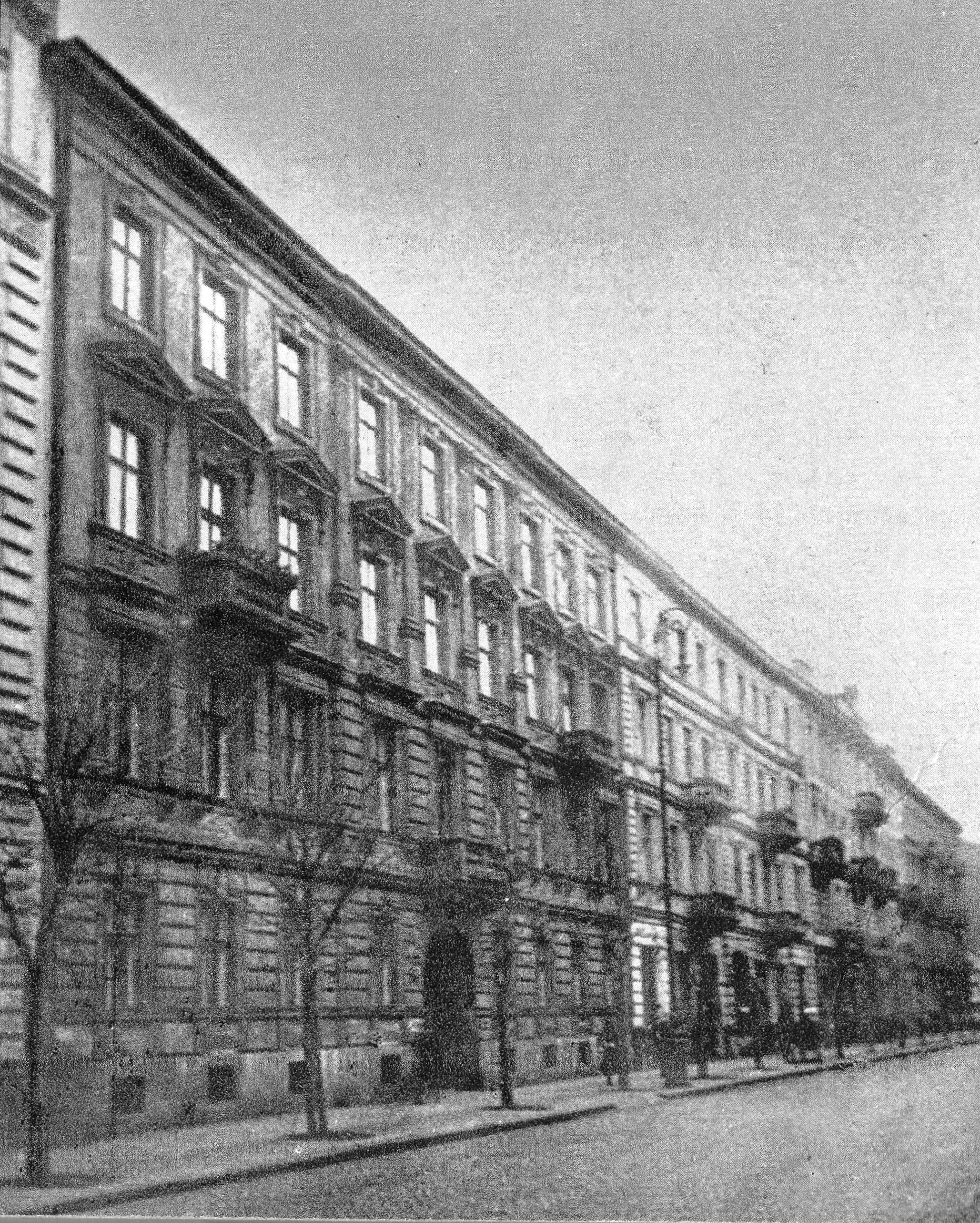 Krucza Street between Pius XI and Wilcza Streets